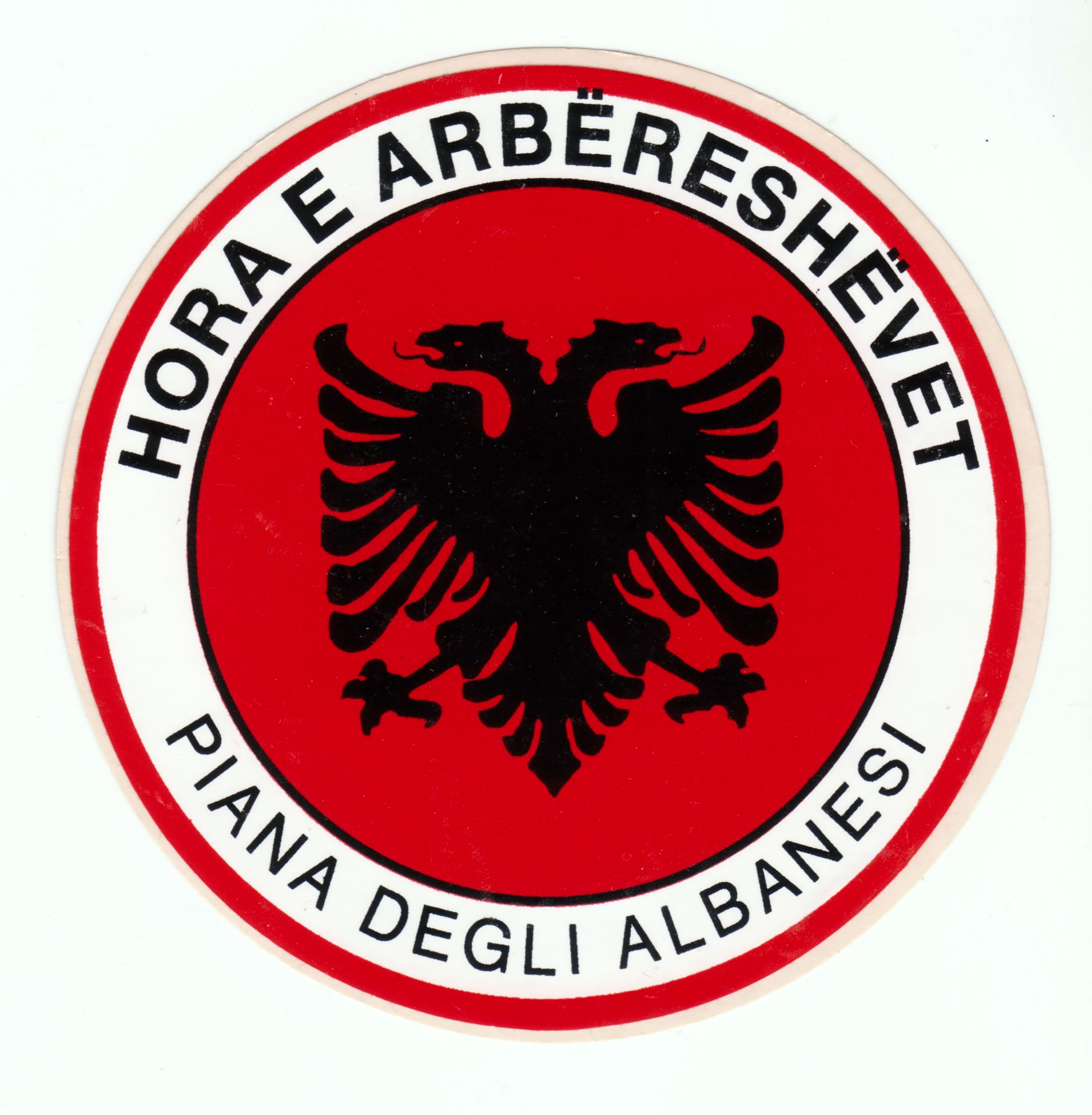 Heraldic coat of arms of the small town of Piana degli Albanesi (Province of Palermo - Sicily, Italy). It represents the double-headed eagle symbol of the Albanians (shqiponja e arbëreshëvet) and has the capitalized name of the municipality of Piana degli Albanesi, in the Albanian language (above in bold) and in Italian. This coat of arms is widely used by the arbëresh community of Piana degli Albanesi as a sticker on cars, as a distinctive and proud symbol of belonging to the Albanian ethnic group of Italy.